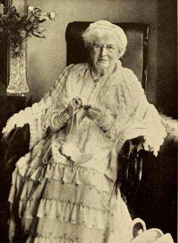 In 1919, aged 105, photographed for National Geographic Magazine